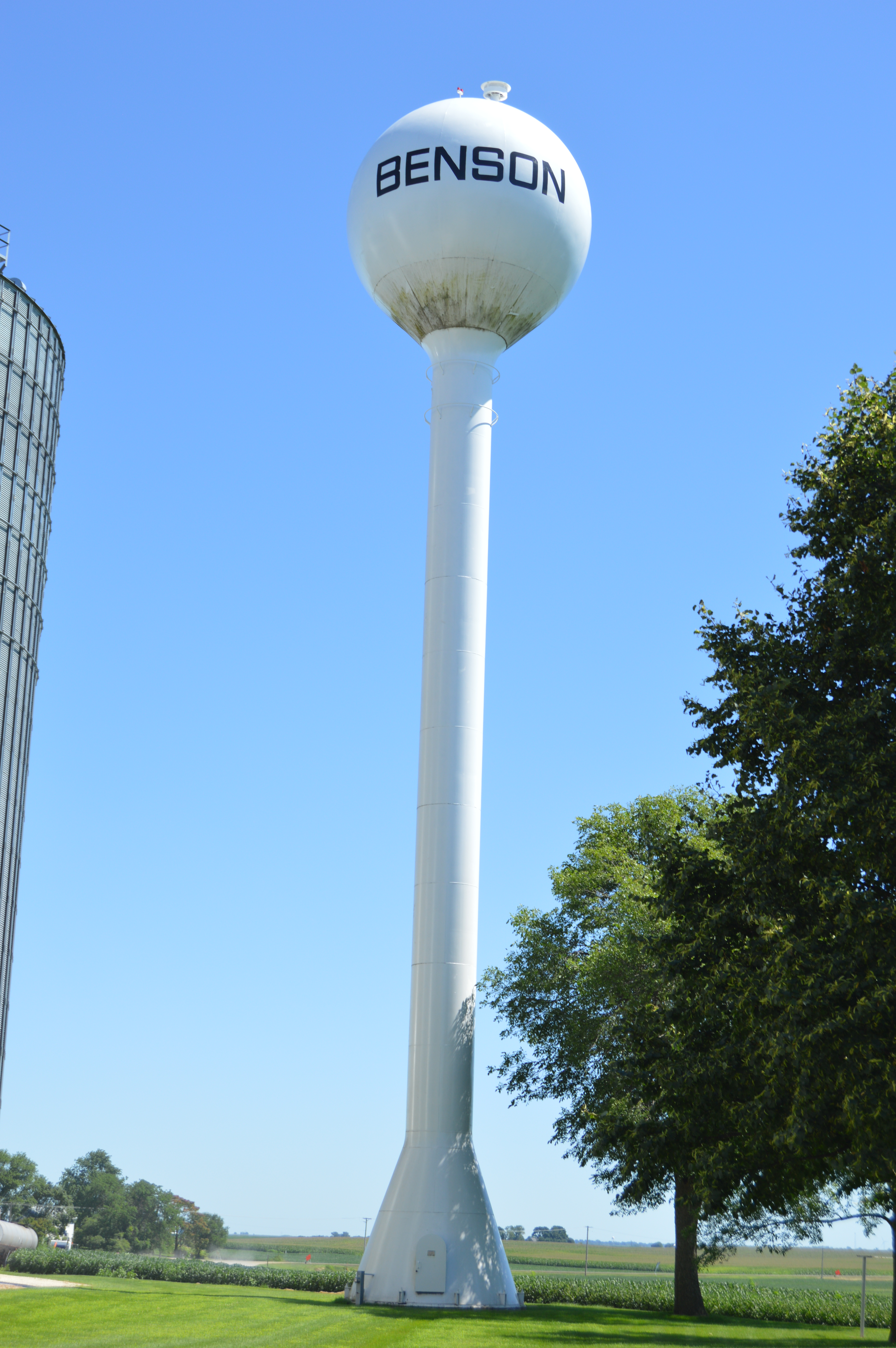 Comprehensive view of the current water tower in Benson, Illinois, United States, seen looking northeast from the junction of Washington and Clayton Streets. It was built in 1985 to replace a previous brick tower.